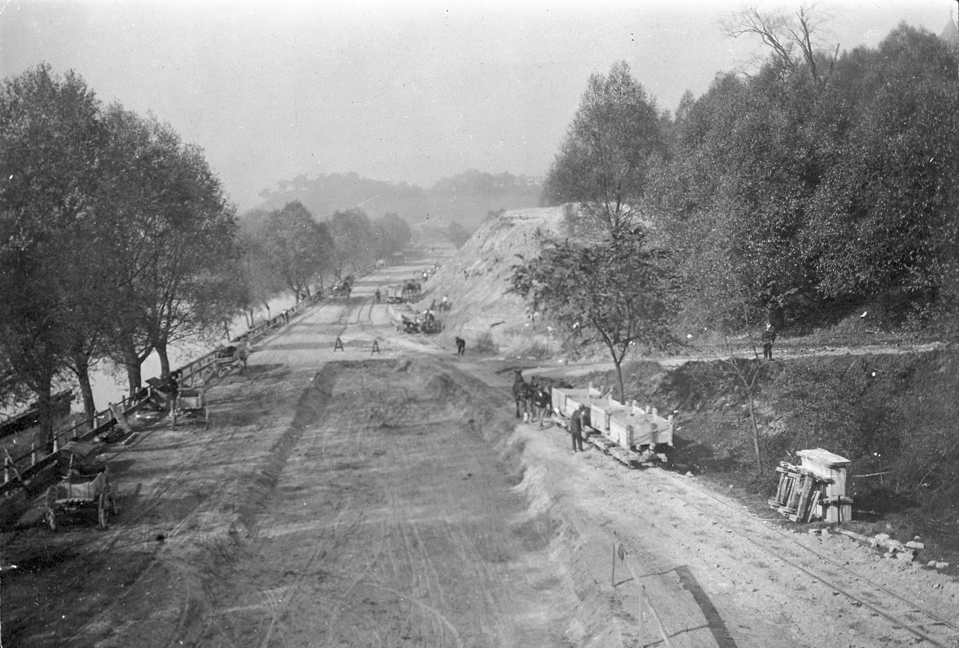 The Don Roadway under construction, looking north. The road ran along the eastern bank of the Don River, from near the river mouth at Lake Ontario to Winchester Street. When this section of the Don Valley Parkway was constructed in the 1960s, most of the Don Roadway was incorporated into the new highway, leaving only a stub in the vicinity of the Keating Channel. Toronto, Ontario, Canada.